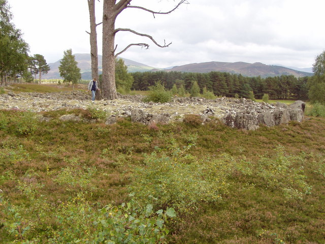 Greenish Ring Cairn, near to Avielochan, Highland, Great Britain. Partly "robbed-out" pre-historic ring cairn just to East of Inverness-Perth railway with Cairngorms in background